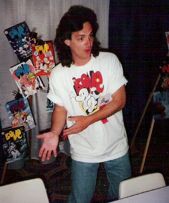 American comic book artist Jeff Smith.